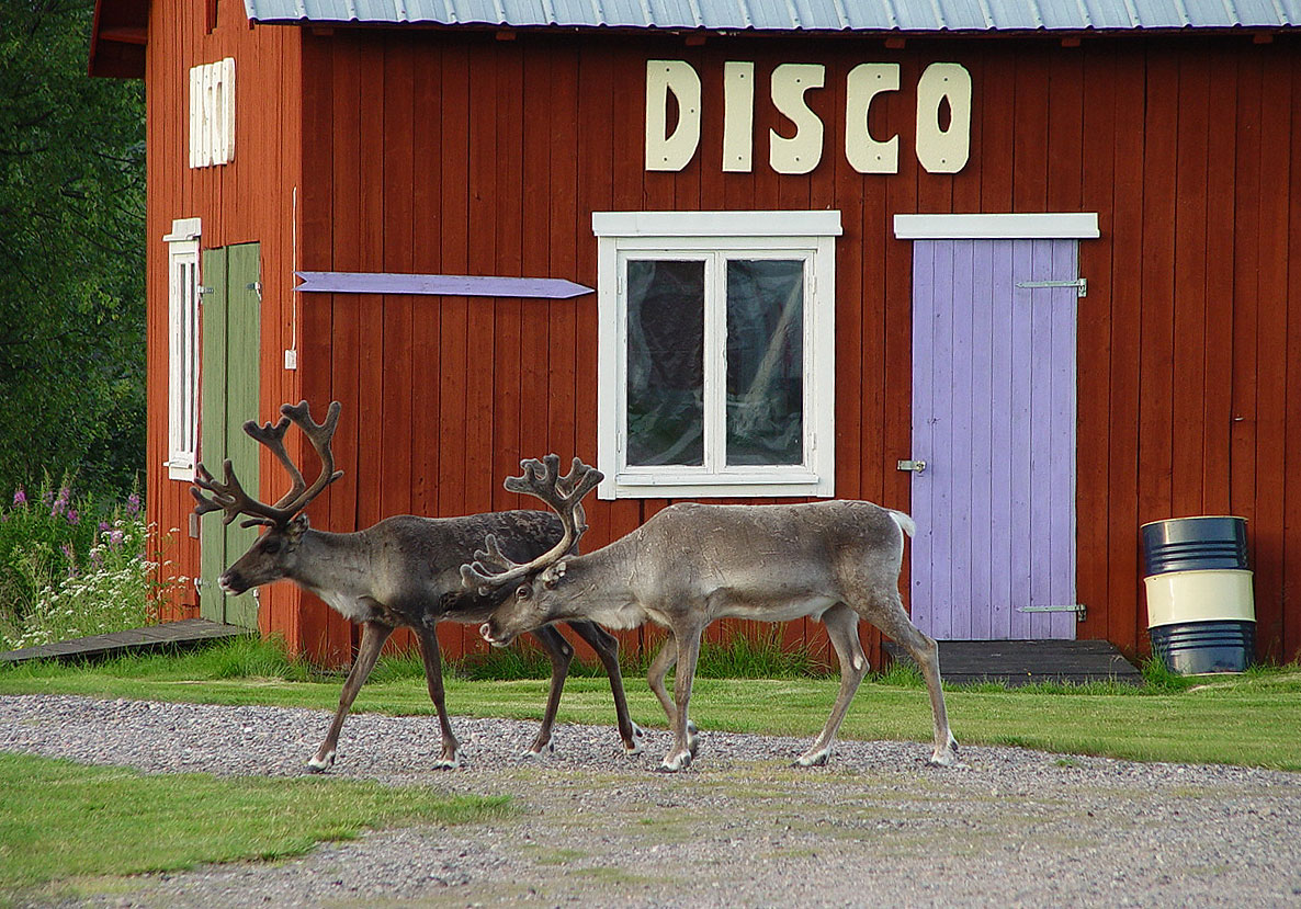 Reindeer on a small camping ground in Lappland